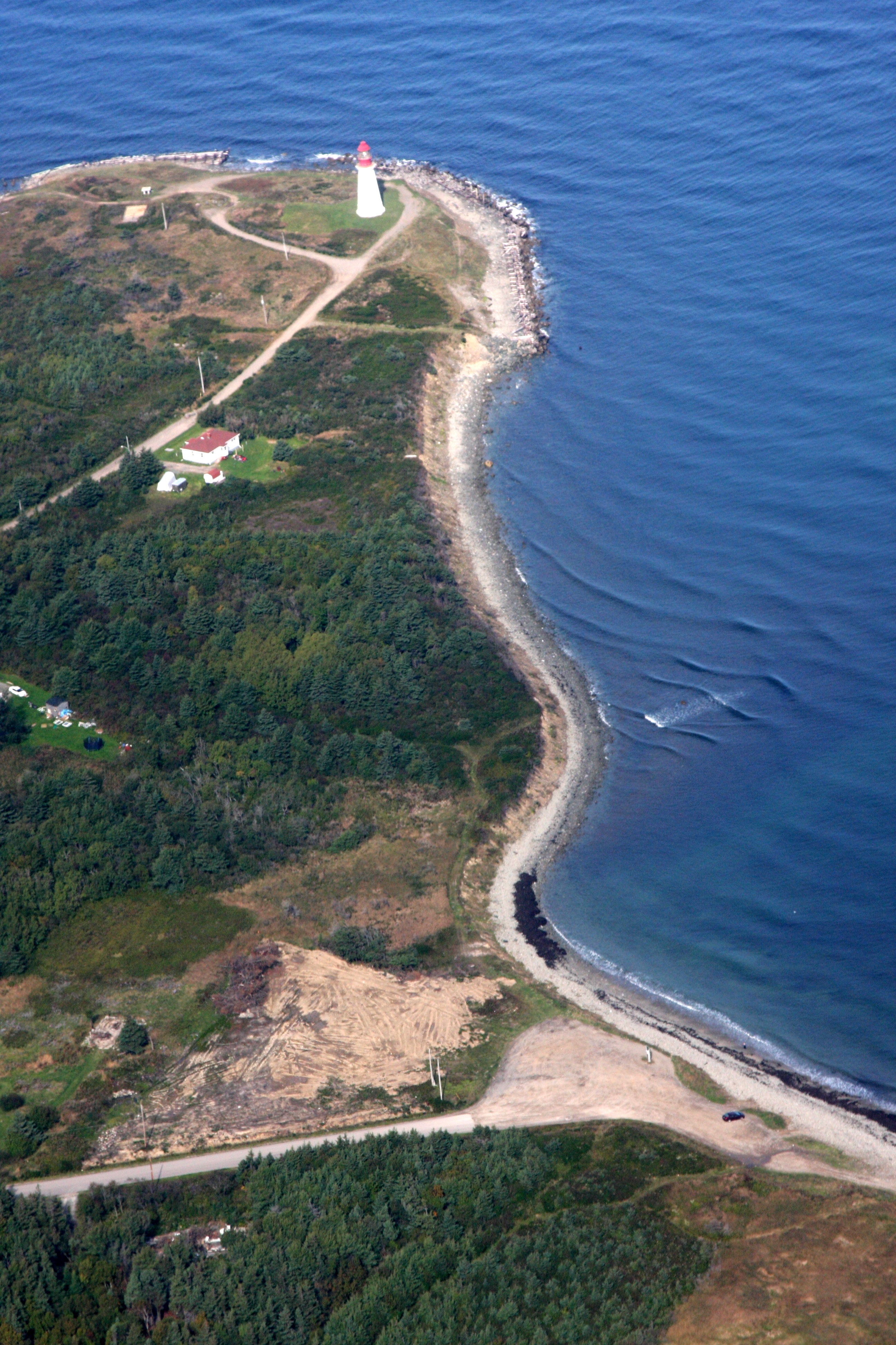 Low Point Lighthouse (also known as 'Flat Point Lighthouse') is a historic Canadian lighthouse marking the eastern entrance to Sydney Harbour at New Victoria, Nova Scotia, near New Waterford, Nova Scotia. This is one of the earliest and most important light stations of Nova Scotia, one of the first dozen beacons in Nova Scotia to be lit to guide mariners, a classic red-and-white lighthouse still operated by the Canadian Coast Guard.